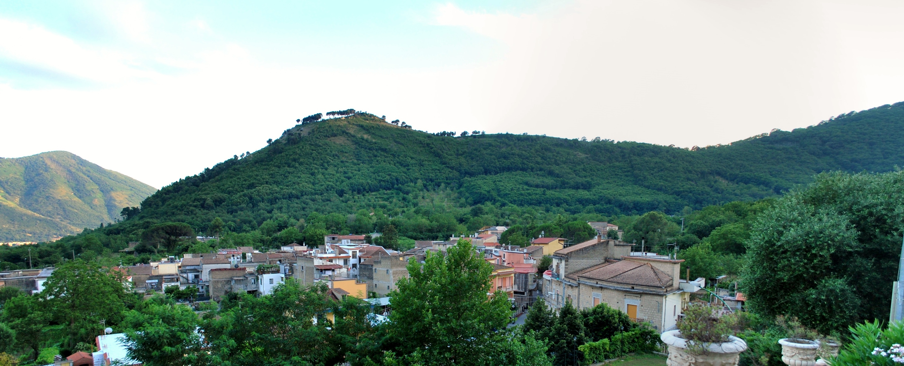 Panorama of Torello, hamlet of Castel San Giorgio, from Saint Barbara's church